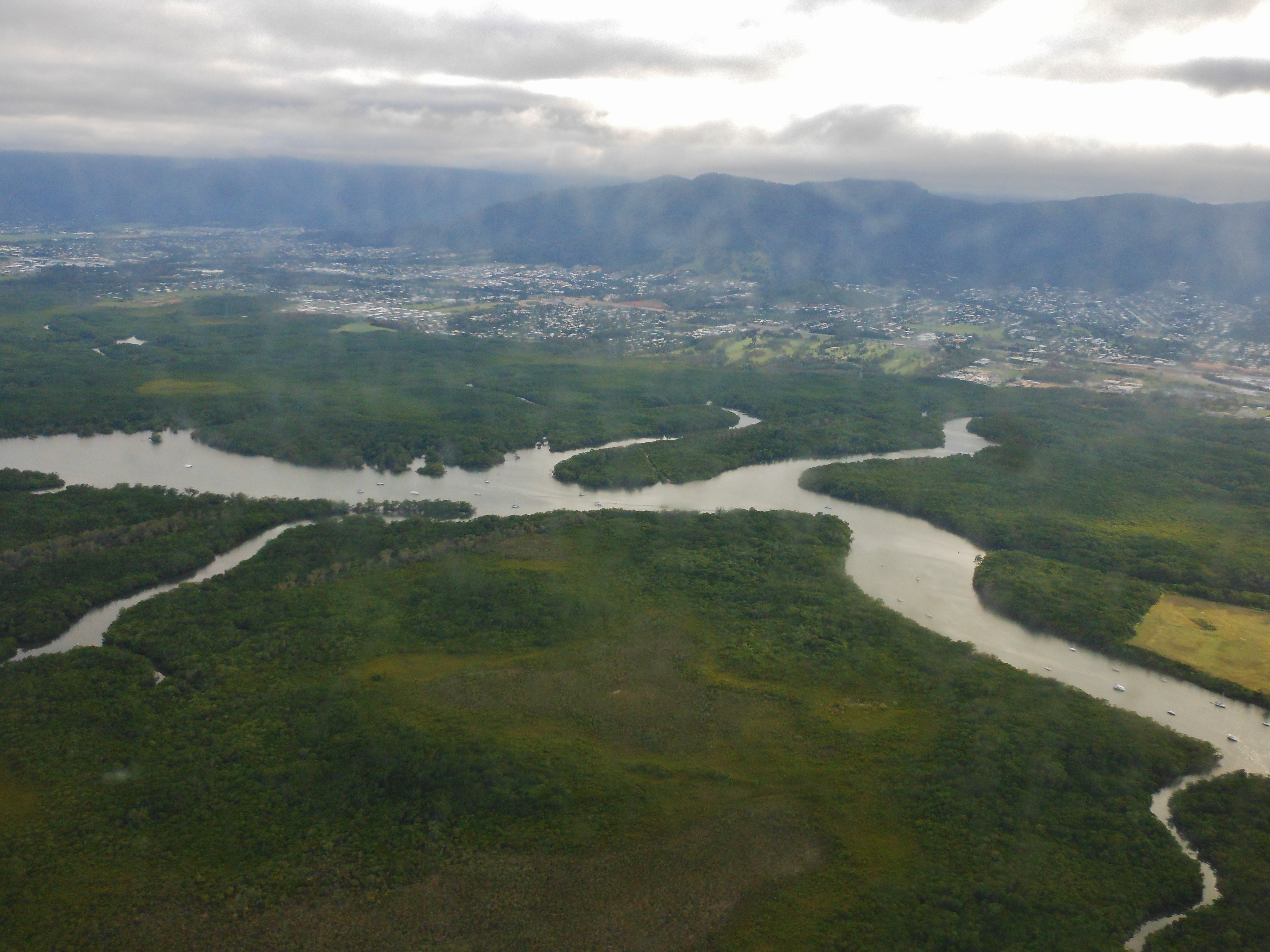 Approaching Cairns